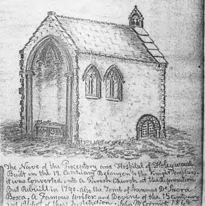 Sketch of abbey grounds made 1849, although ruins had already been demolished. (SOURCE)